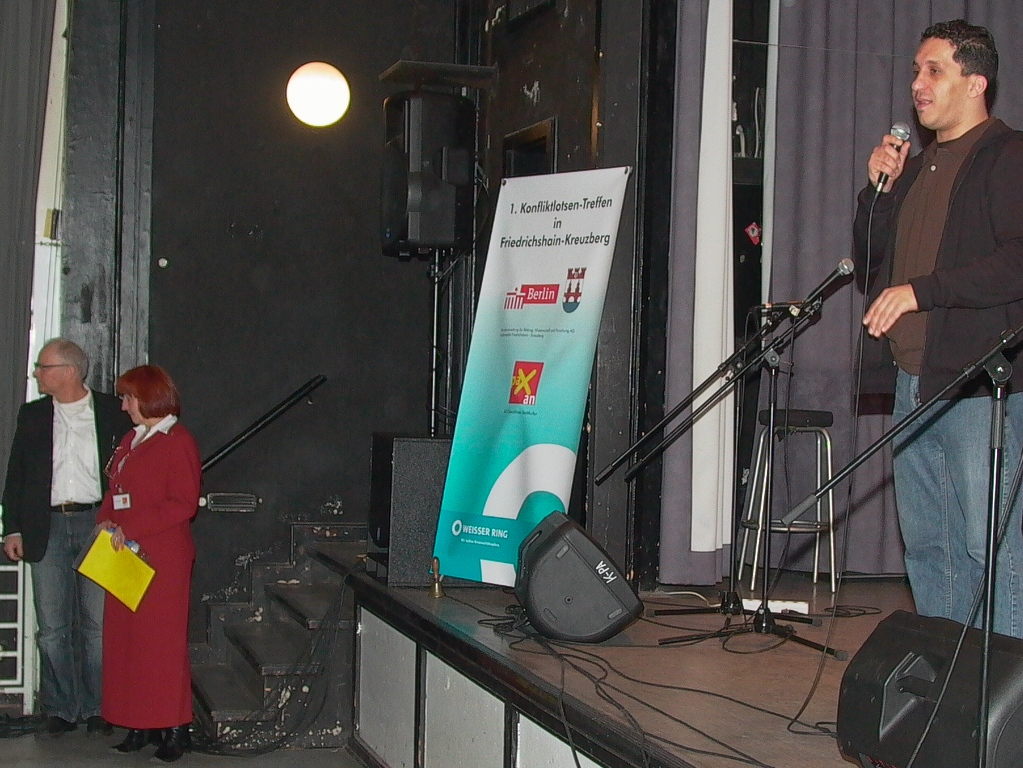 Fadi Saad speaking to little School-Mediators in Berlin-Kreuzberg 2009